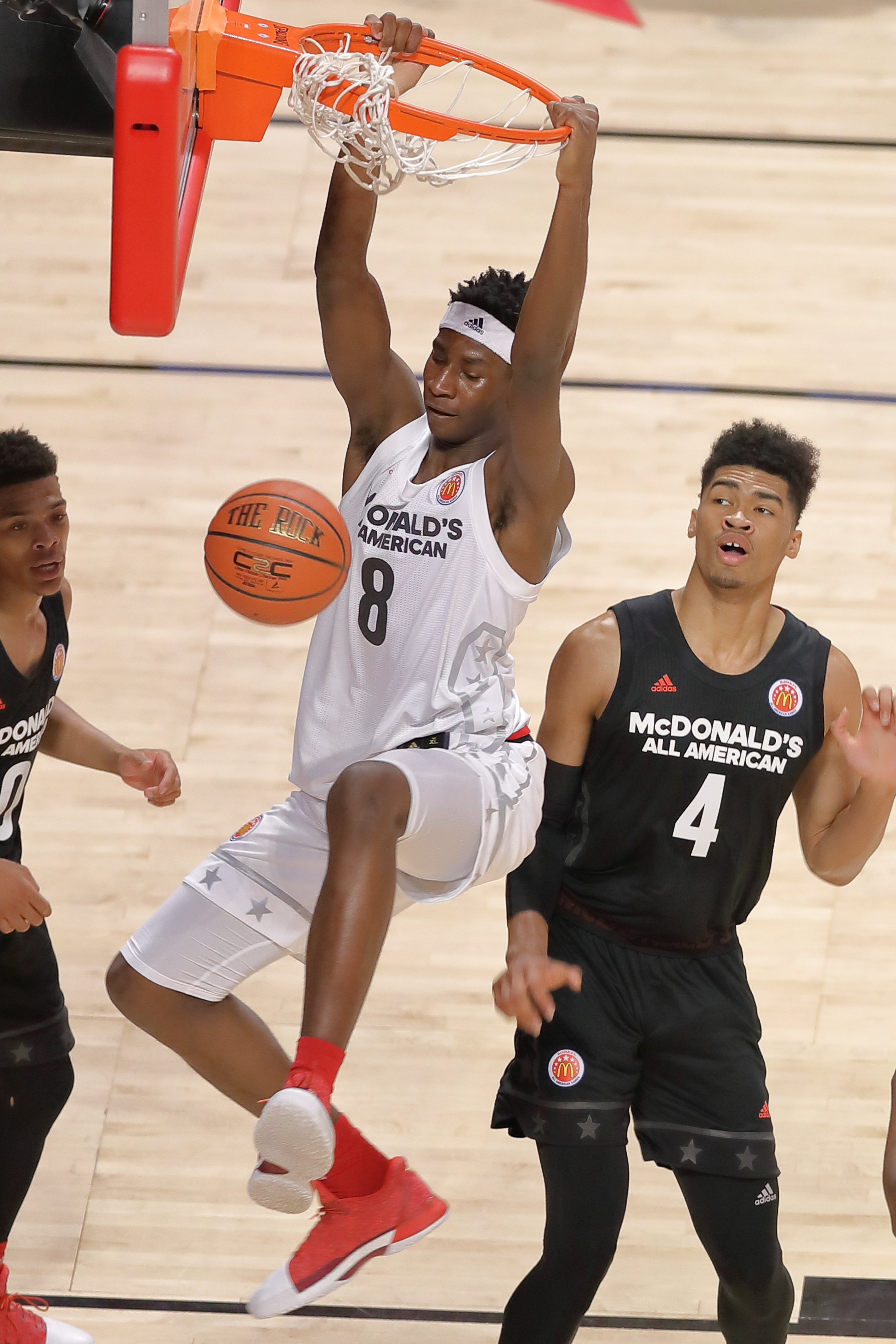 Jaren Jackson Jr. dunks in front of Nicholas Richards and Quade Green at the w:2017 McDonald's All-American Boys Game